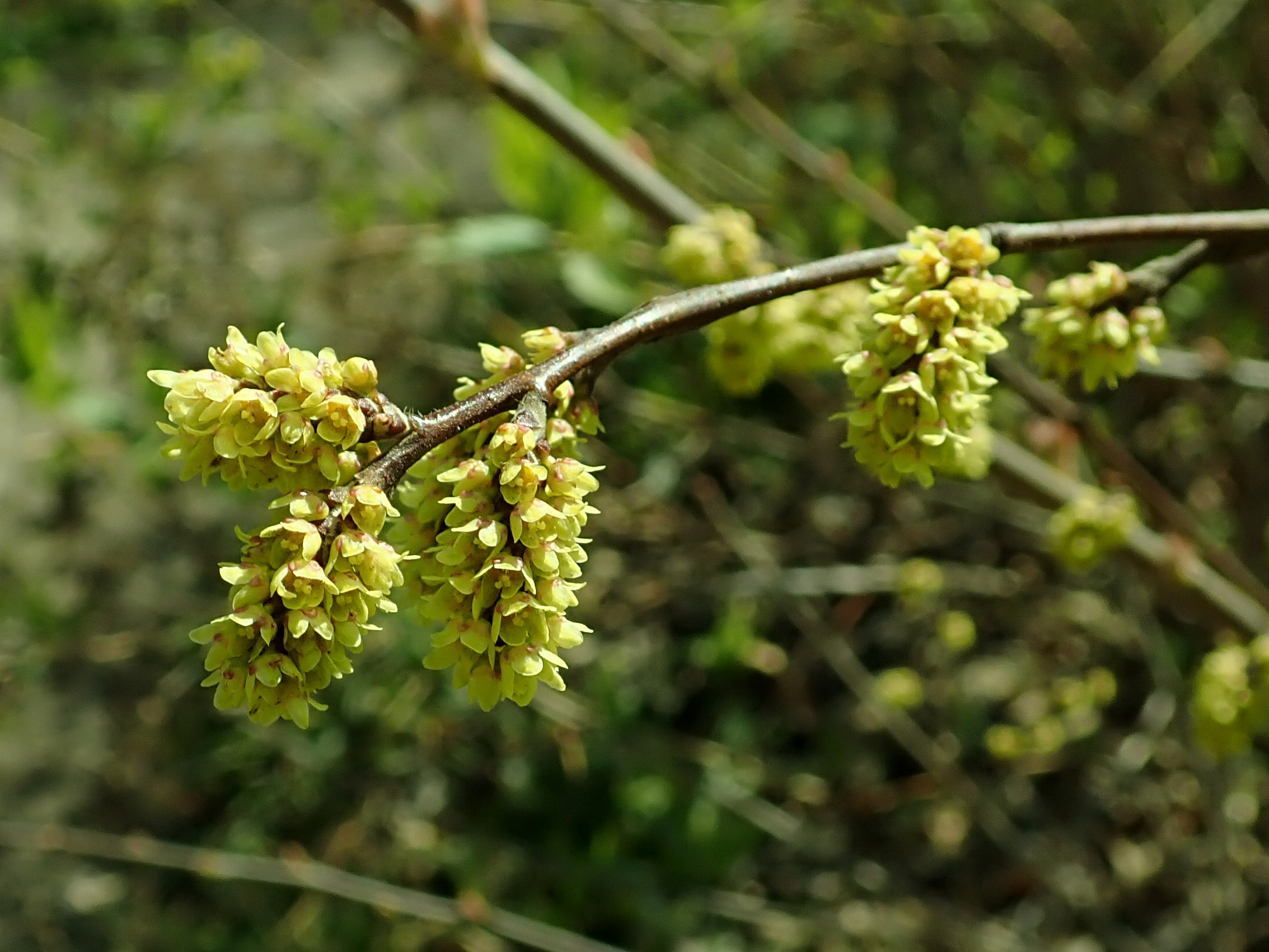 Rhus aromatica, Berlin-Dahlem Botanical Garden.